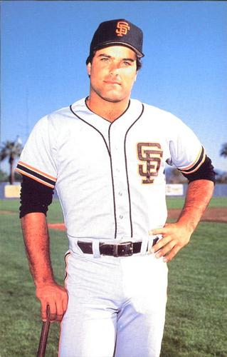 Color postcard from the 1986 San Francisco Giants postcard set of professional baseball player Mike Aldrete